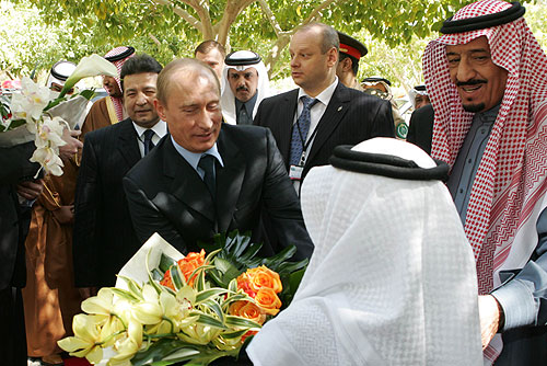 RIYADH. Visiting the King Abdul Aziz Historic Centre. With Prince Salman bin Abdul Aziz, governor of Riyadh Province and brother of the Saudi King.